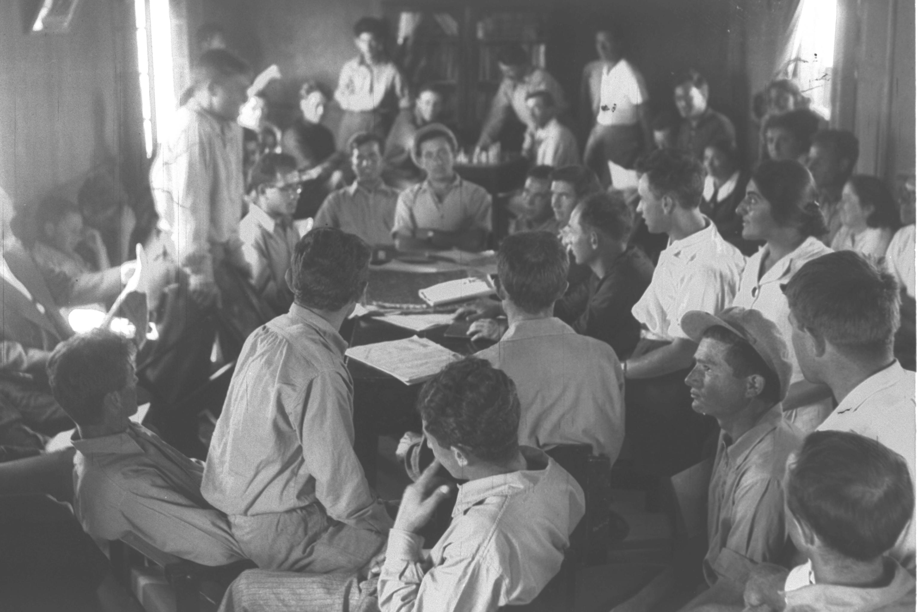 MEMBERS OF KIBBUTZ AFIKIM HOLDING THEIR GENERAL MEETING IN THE LIBRARY OF THE SETTLEMENT. אסיפה כללית של חברי קיבוף אפיקים, בספריית הקיבוץ.